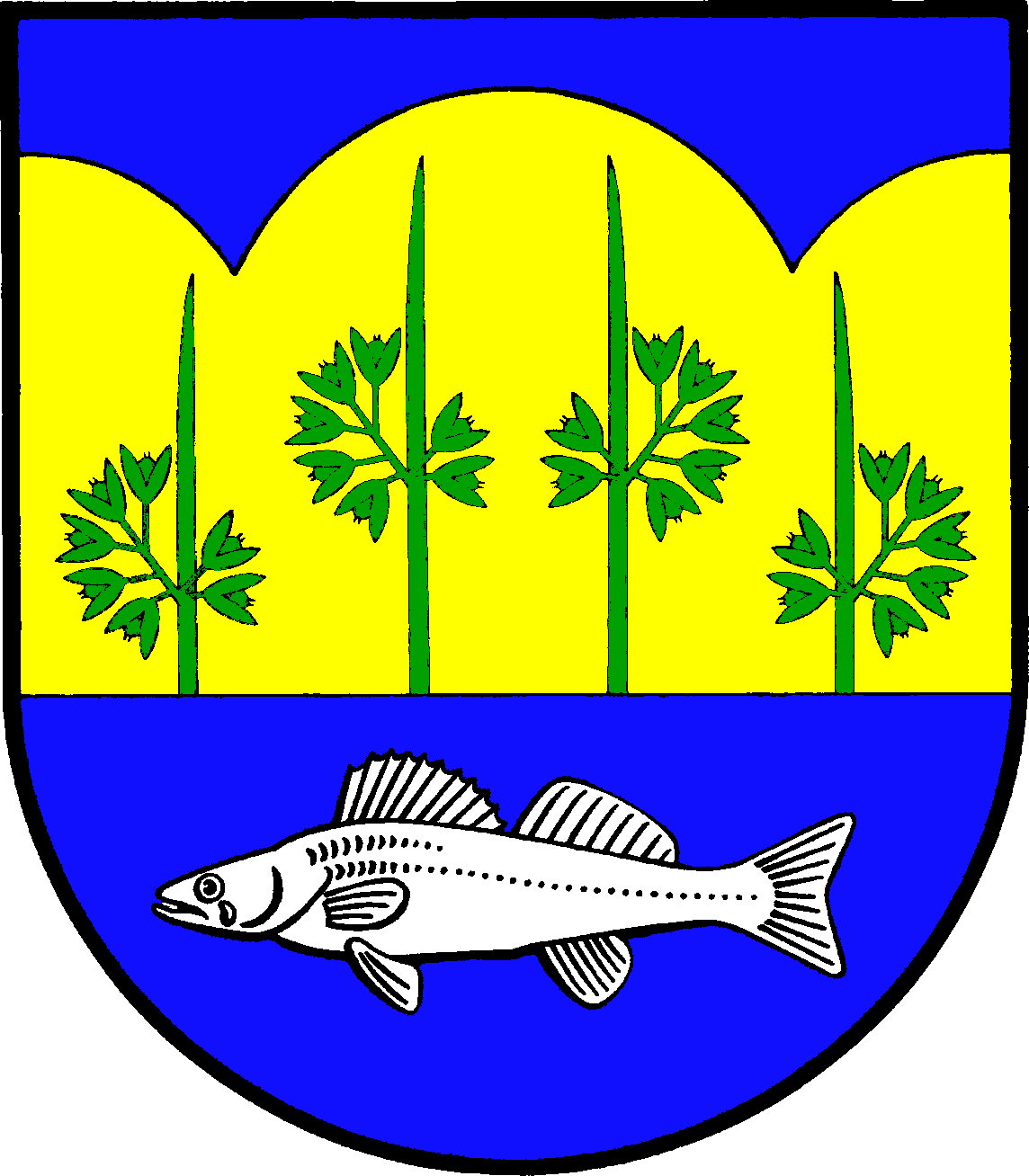 Coat of arms of the former municipality Bistensee and the municipality Ahlefeld-Bistensee in Schleswig-Holstein, Germany.